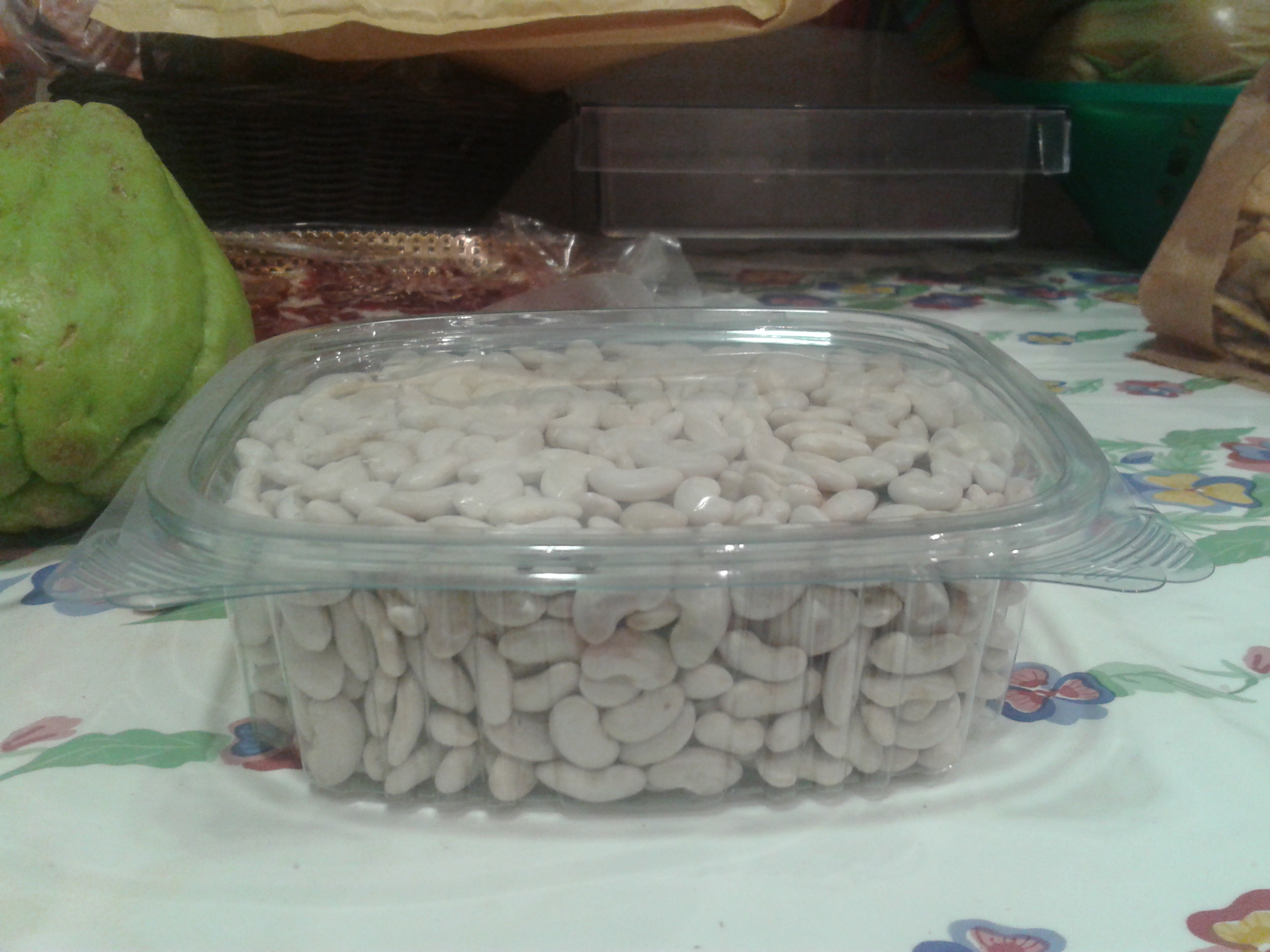 Mongeta del Ganxet, Hook Bean in Catalan.